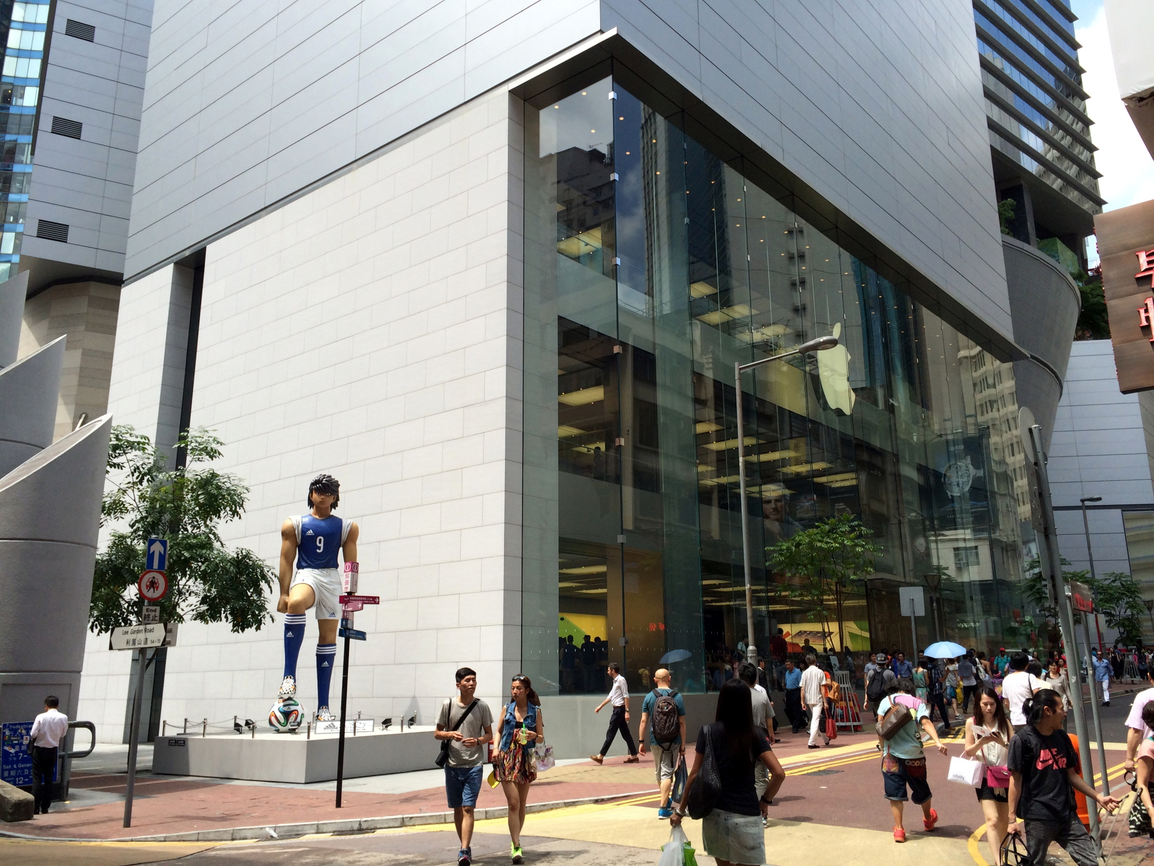 Hysan Place Apple Store